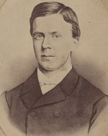 Portrait of Richard Nordraak.